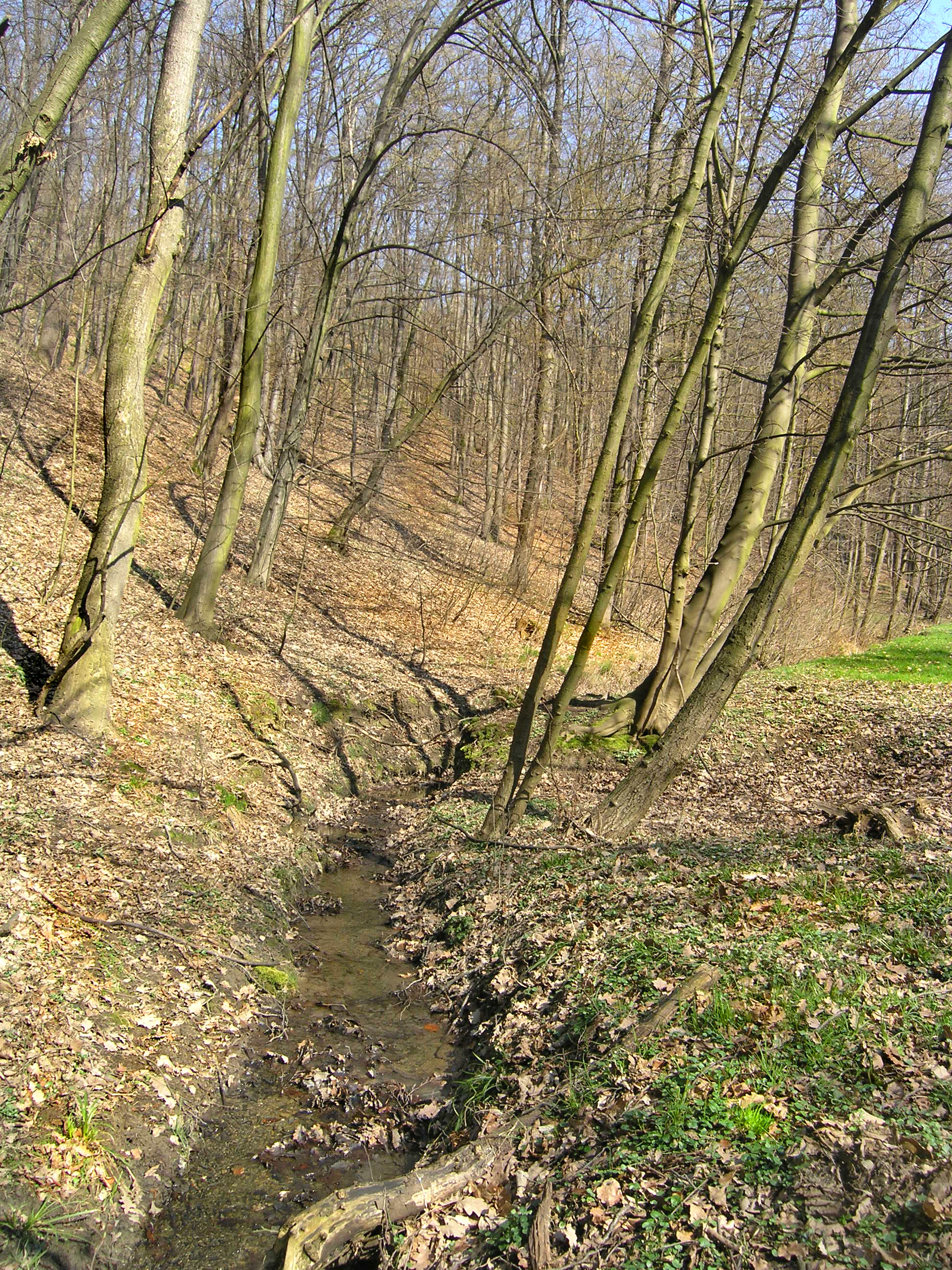 Slope beside Václavský creek at Kunratický forest, Prague